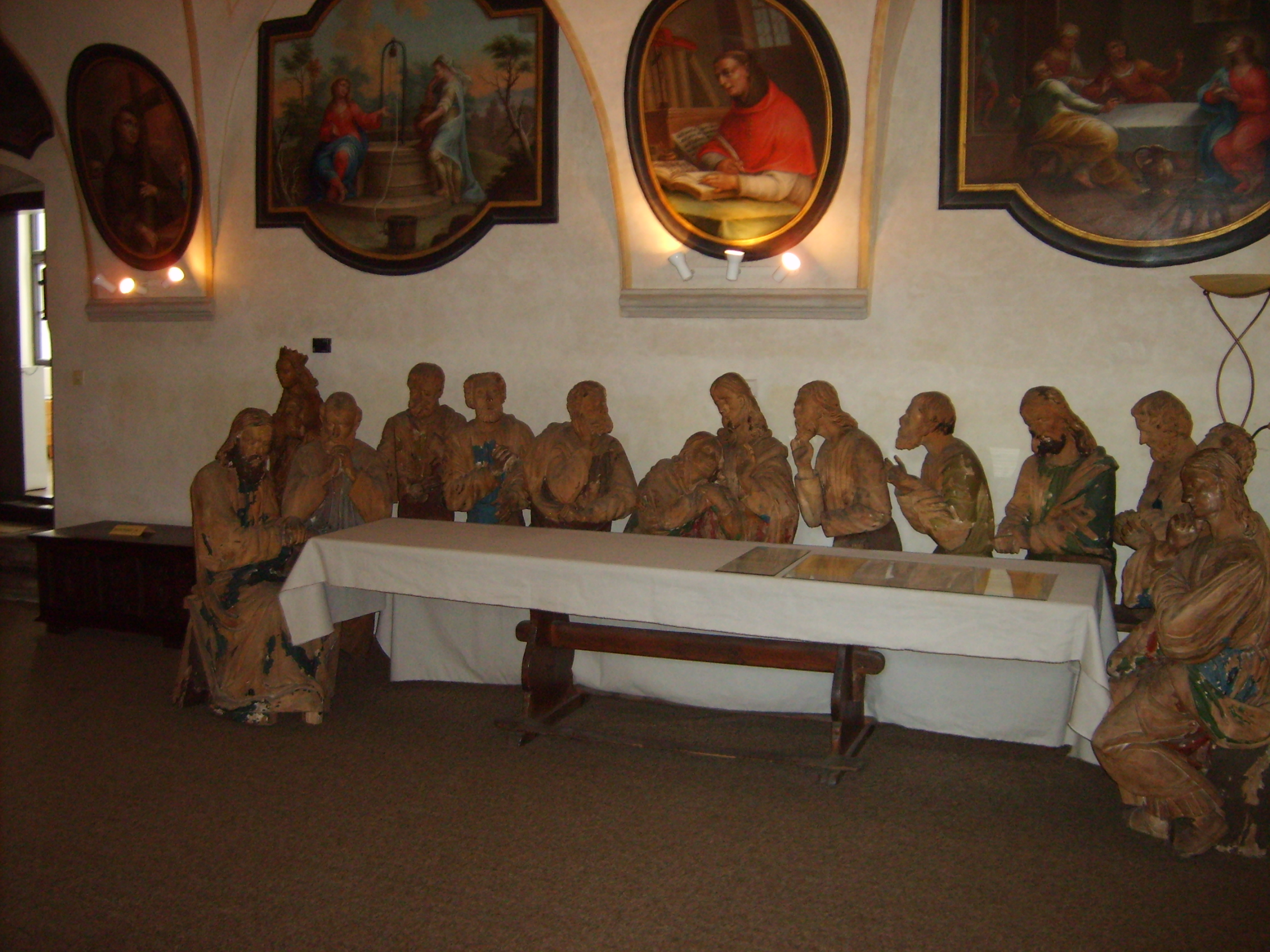 Wooden statues of 12 apostoles in exposition of Bohemia forest Museum in Tachov.